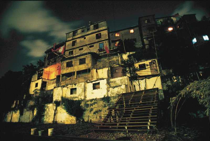 Marco Casagrande: Organic Layer. Treasure Hill, Taipei Taiwan 2003. Photo: Stephen Wilde.